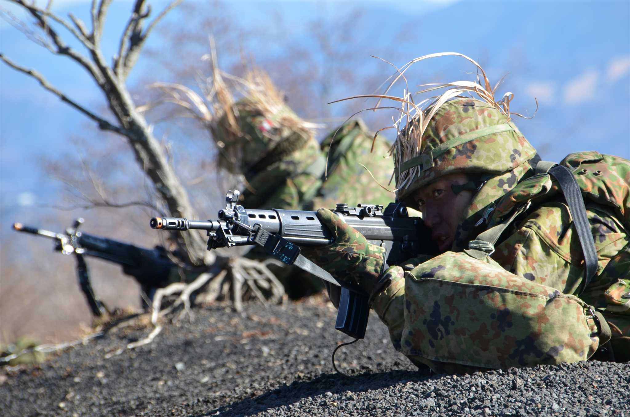 Title ８９式５．５６ｍｍ小銃 24.12.12 ３３ｉ・第３次訓練検閲（攻撃戦闘中の小銃手）_R.JPG Album 装備 ８９式５．５６ｍｍ小銃（訓練検閲（攻撃戦闘）・第３３普通科連隊）